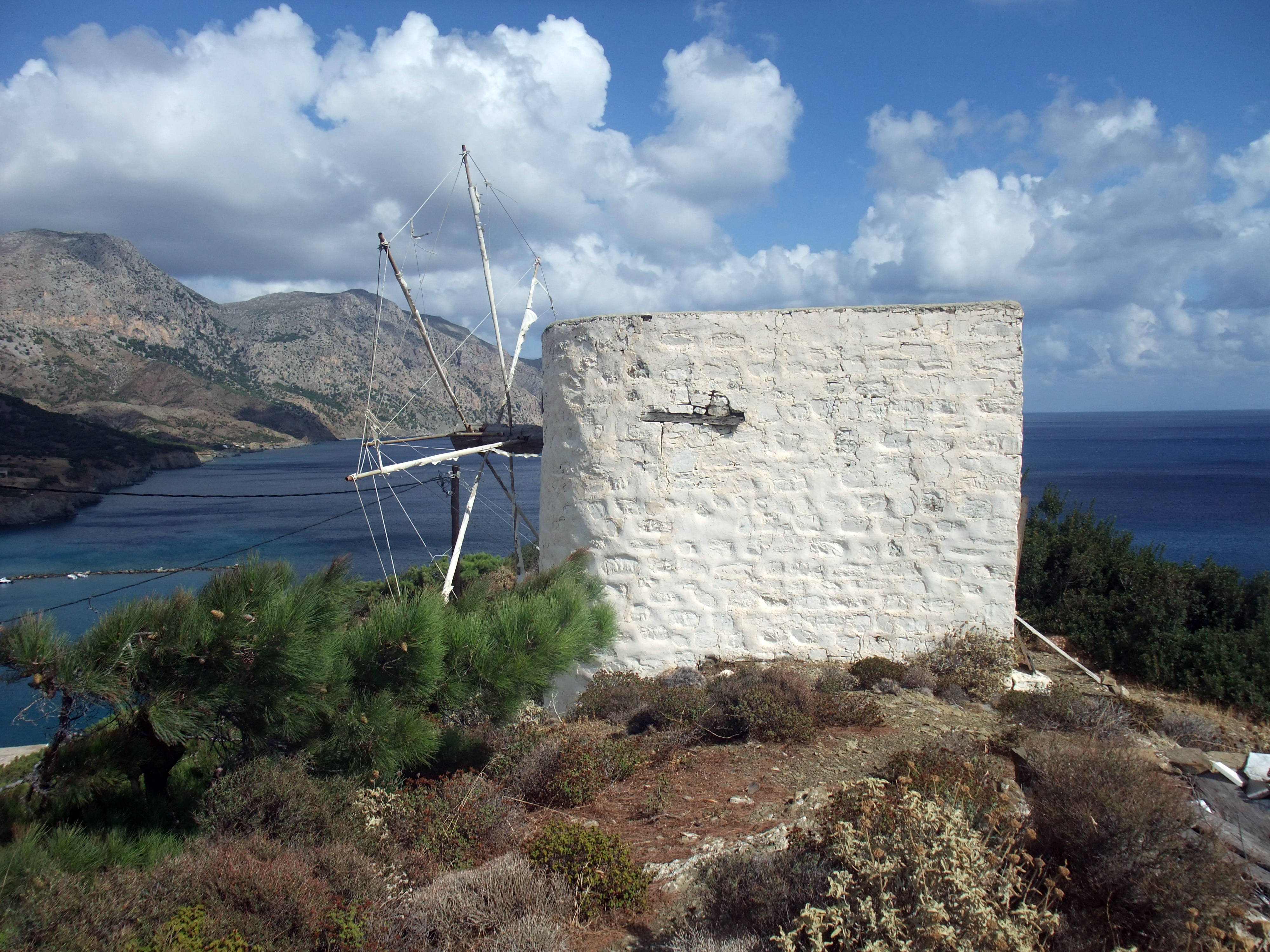 Windmill above of Diafáni, Karpathos, Greek Dodecanese islands